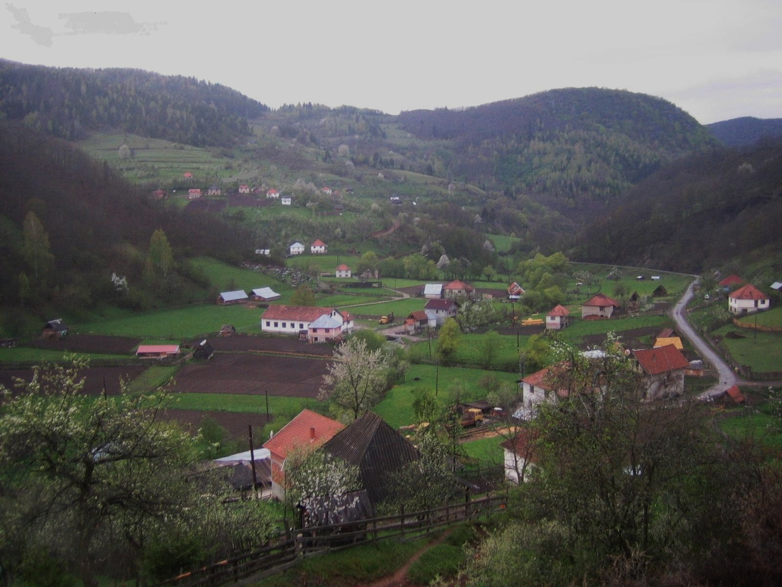 i took the while in kaludra, montenegro